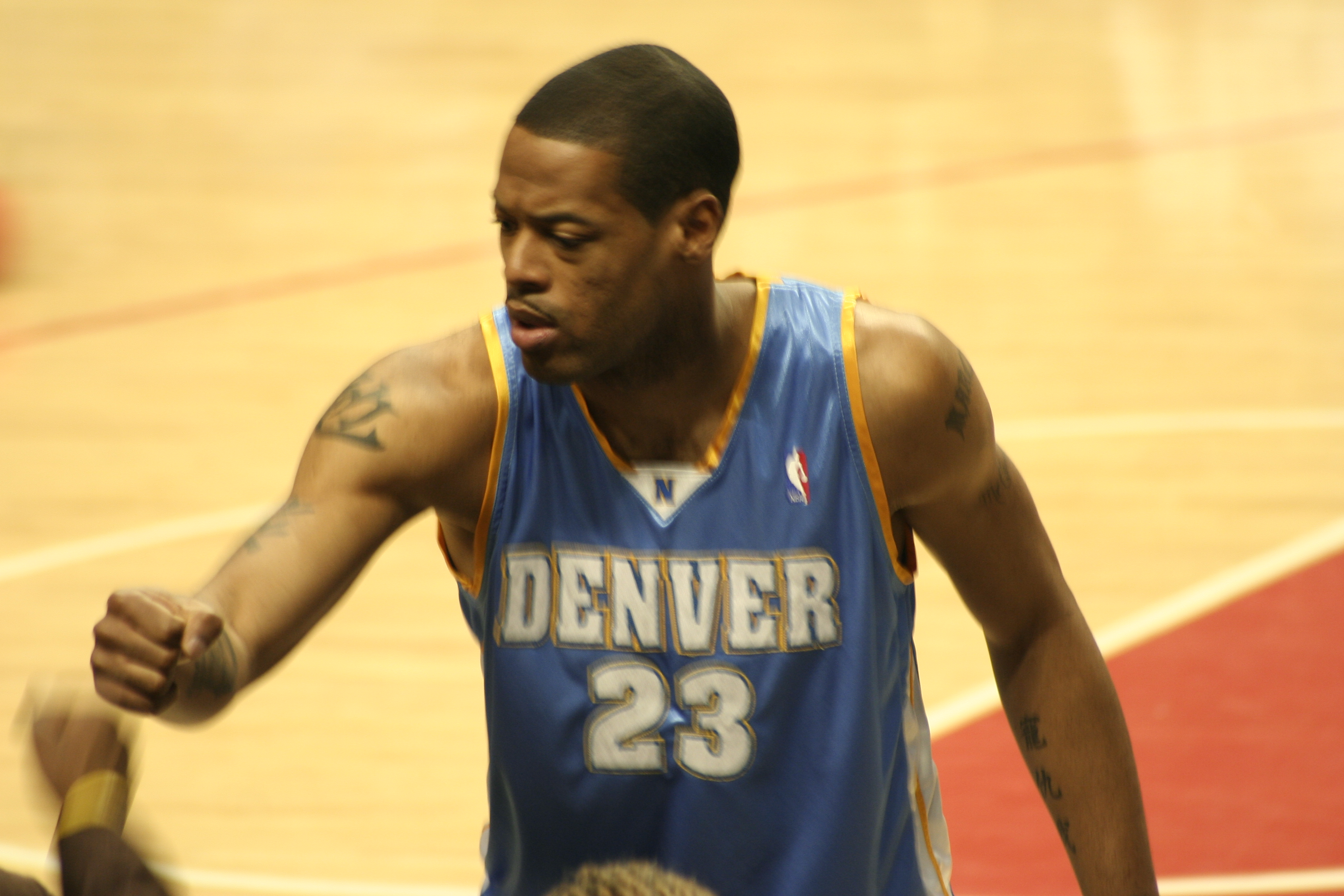 Marcus Camby greets the floorside seaters